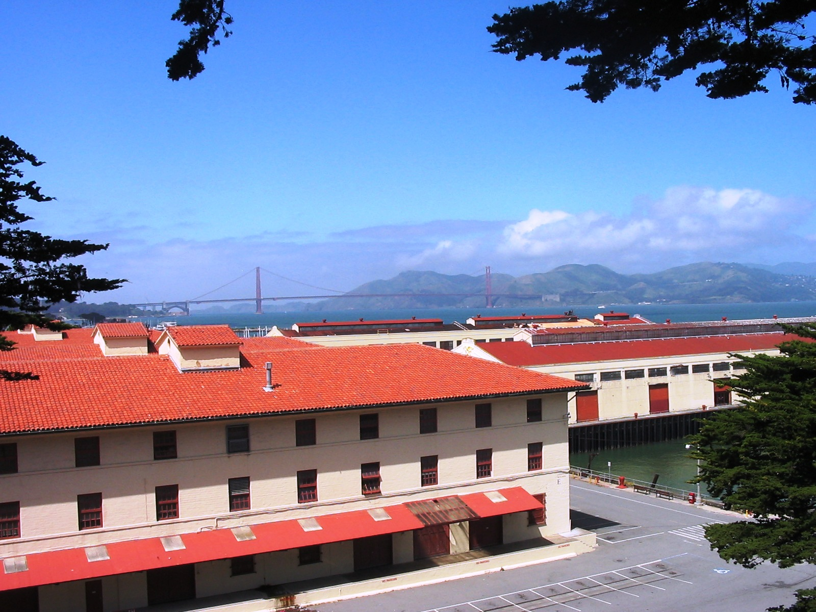 Historic warehouses and piers near Fort Mason, used during WW2 for embarking men and supplies to the distant battlefronts in the Southwest Pacific. Photographed by User:SuperJumbo April 2005.